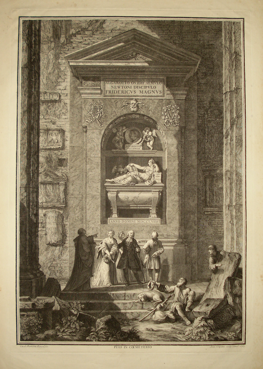 Engraving by Giovanni Volpato